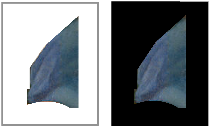 Illustration of the Purkinje effect on the blue of the woman's scarf